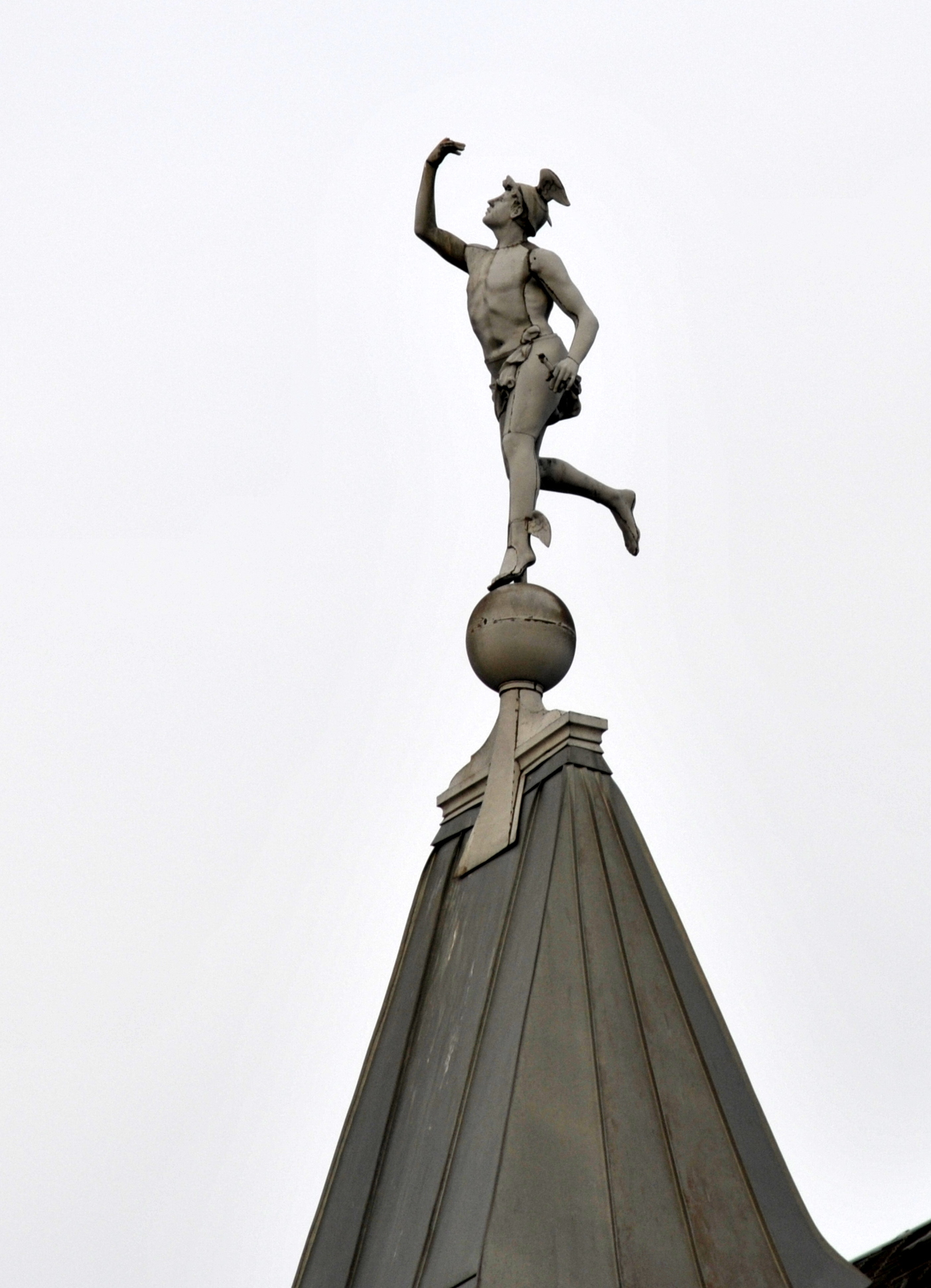 Mercury statue on the roof of a building in Dudelange.